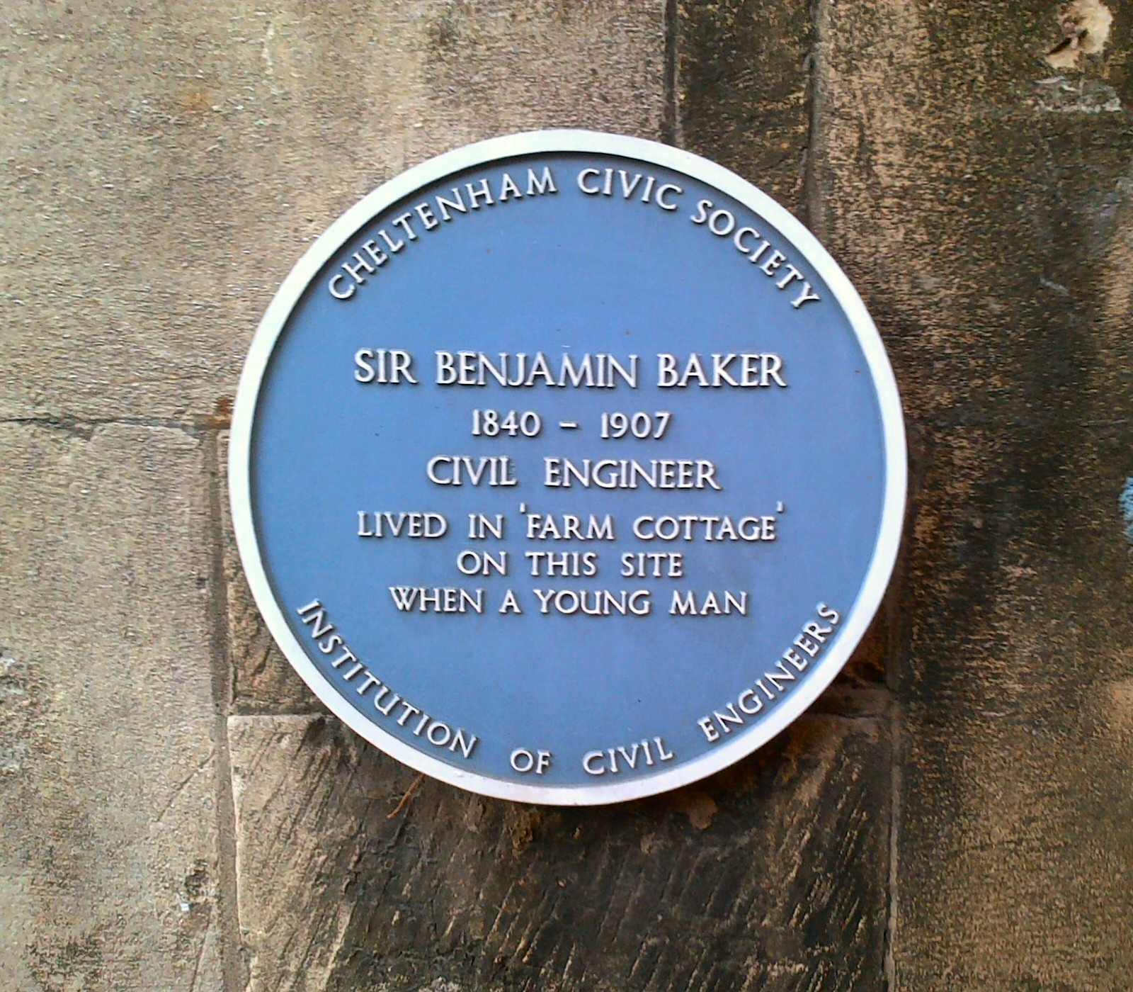 Blue Plaque in Cheltenham denoting the site of the former home of Benjamin Baker. Now occupied by a pub named Tailors.